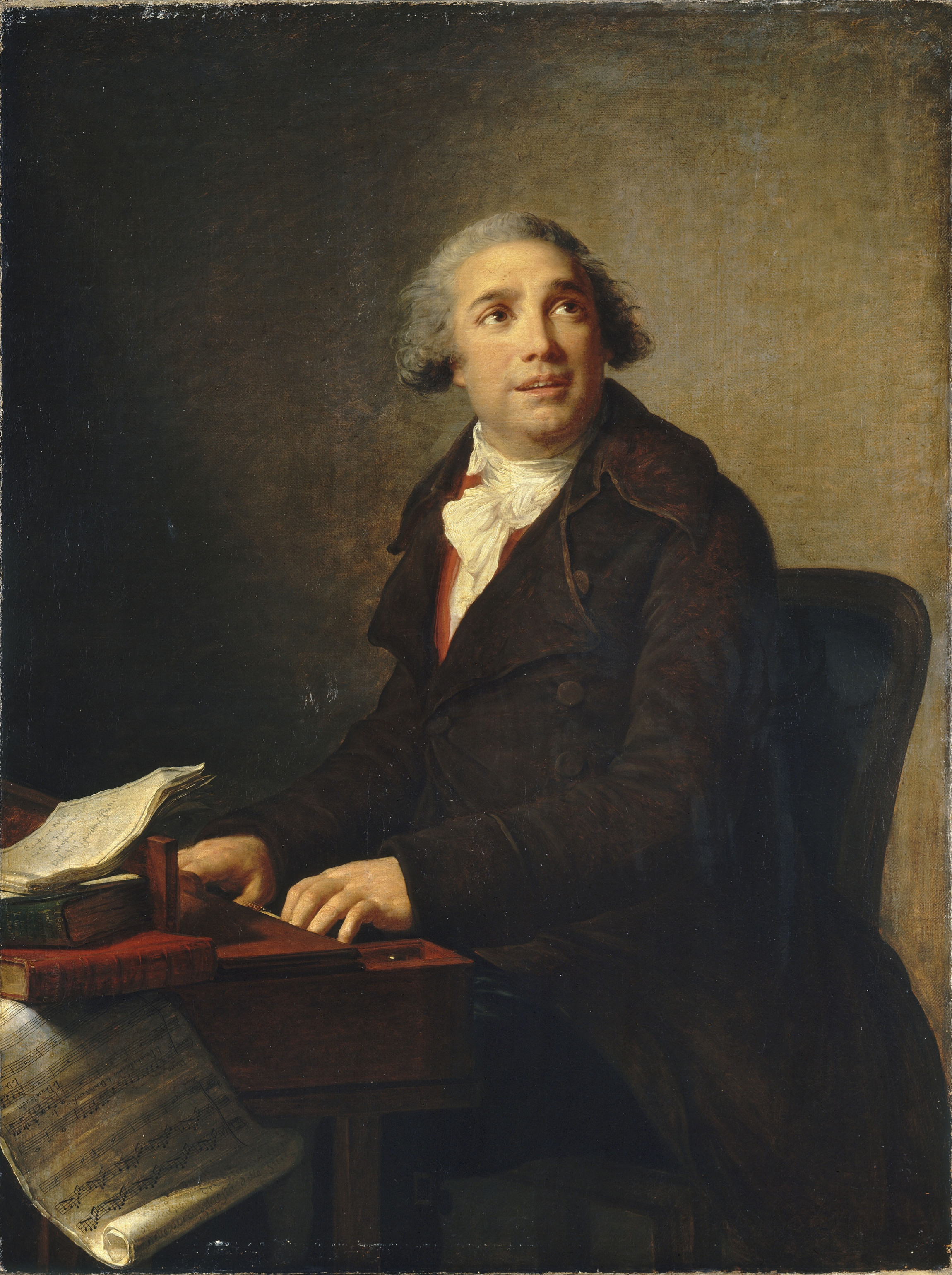 Vigée-Lebrun attended the premiere of Paisello's opera Nina o la pazza d'amore at the San Carlo Opera House in Naples in 1791. He is pictured here with the score of his opera on the clavichord.